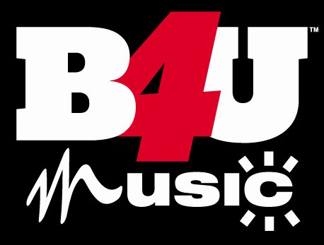 B4U Music logo